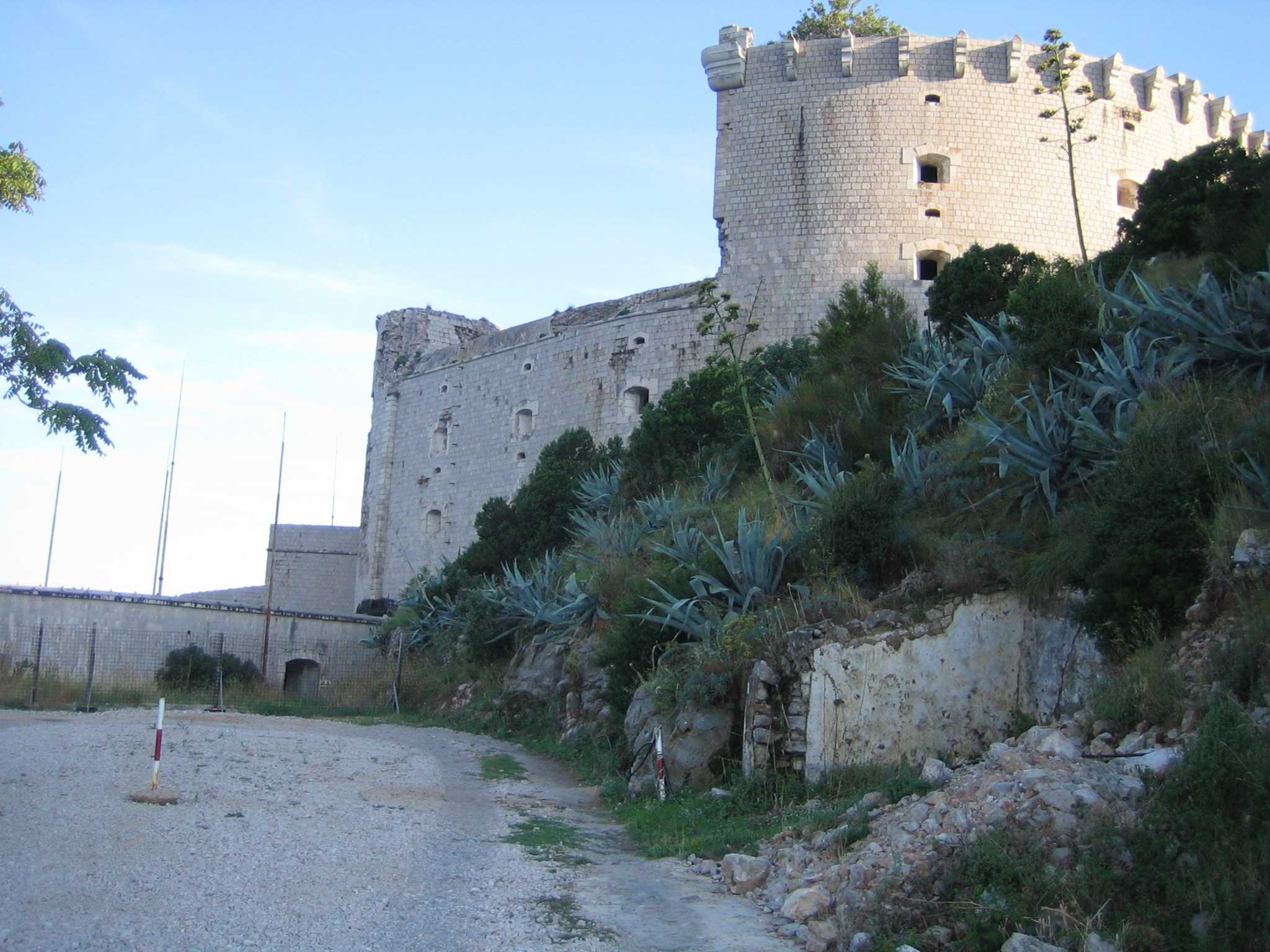 Fort Prevlaka, South Croatia